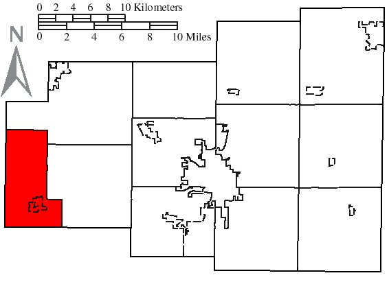 Made by the US Census and modified by myself to highlight the township